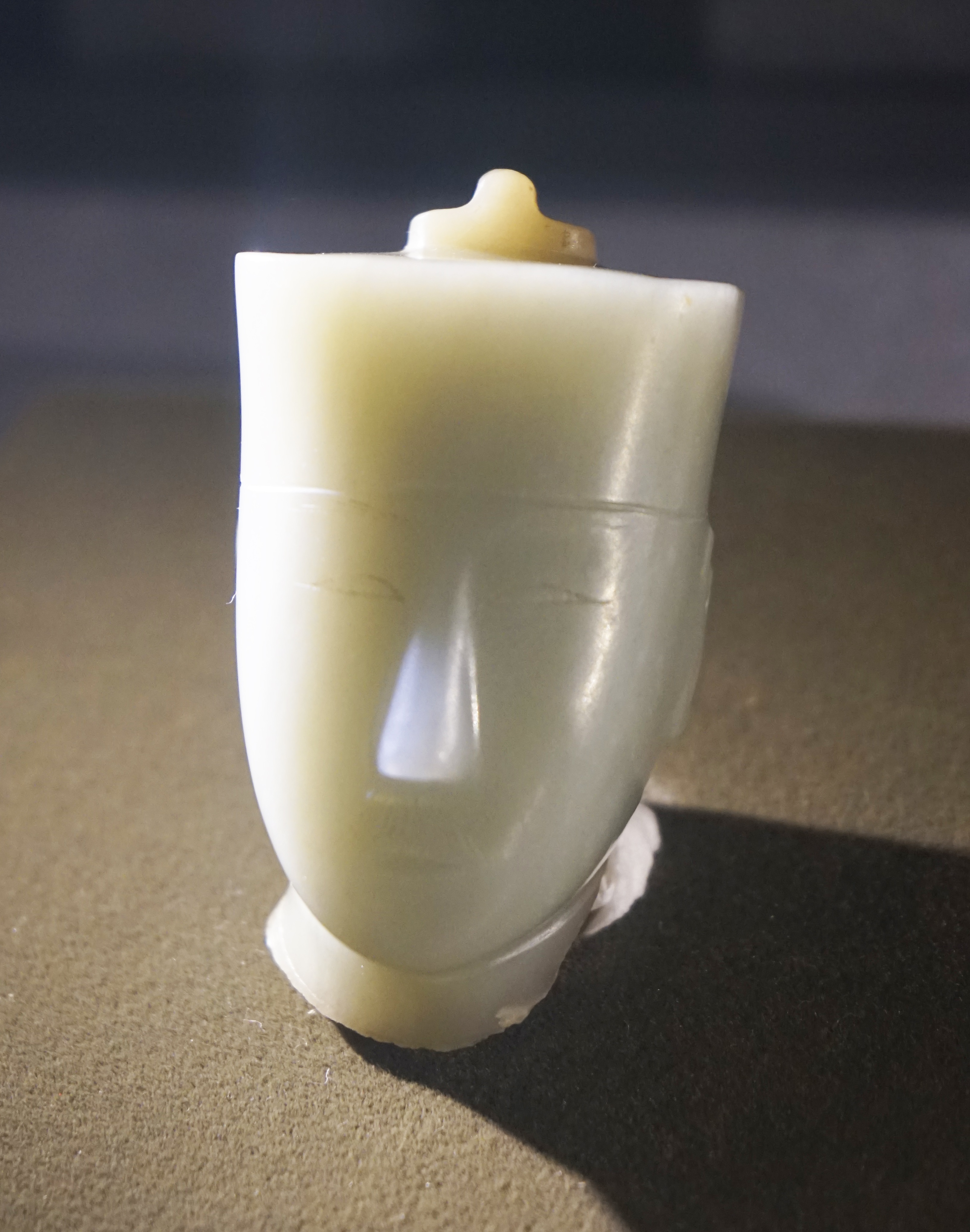 Jade figurine head by round carving with body lost. Western Han Dynasty. 咸阳市周陵镇新庄村汉元帝渭陵北汉代建筑遗址出土